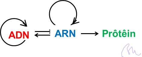 F. Crick's "Central dogma" today.